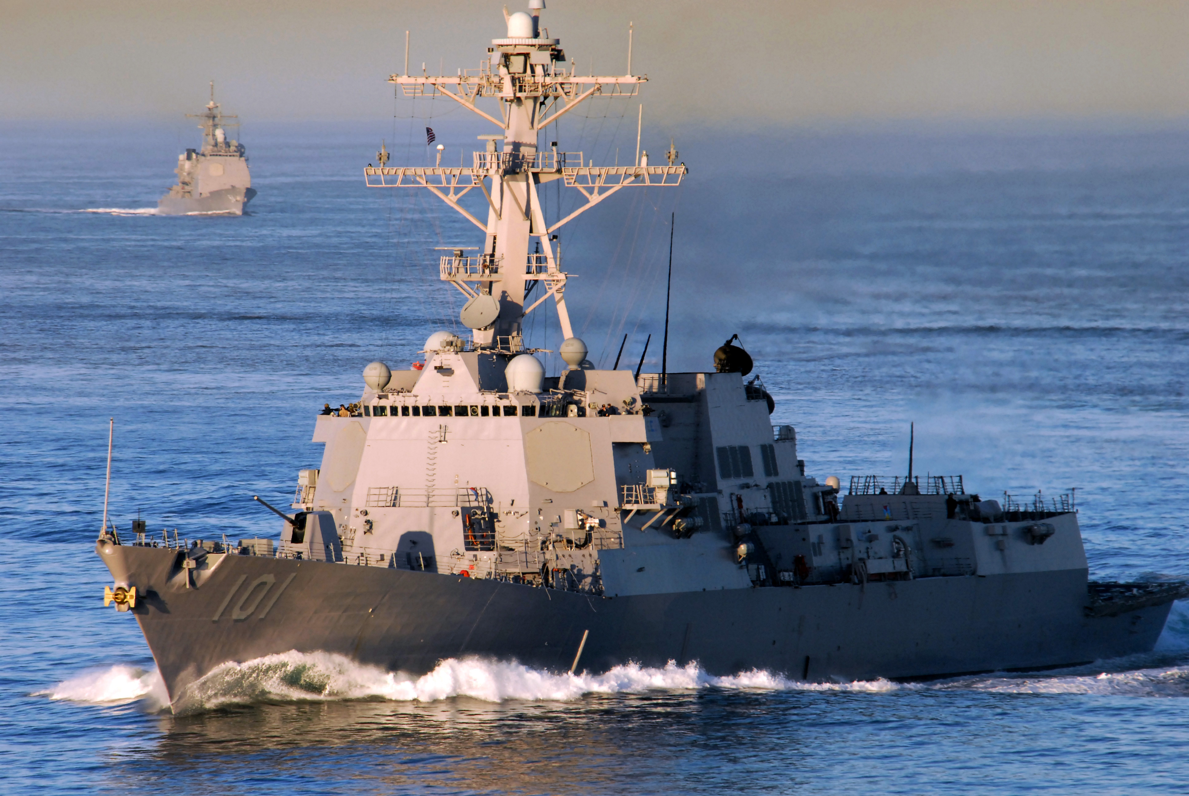 080413-N-1635S-004 PACIFIC OCEAN The guided-missile destroyer USS Gridley (DDG 101) and the guided-missile frigate USS Thach (FFG 43) follow behind the Nimitz-class aircraft carrier USS Ronald Reagan (CVN 76) during a simulated straits transit. The Ronald Reagan Carrier Strike Group is conducting Joint Task Force Exercise (JTFEX) preparing for a deployment.